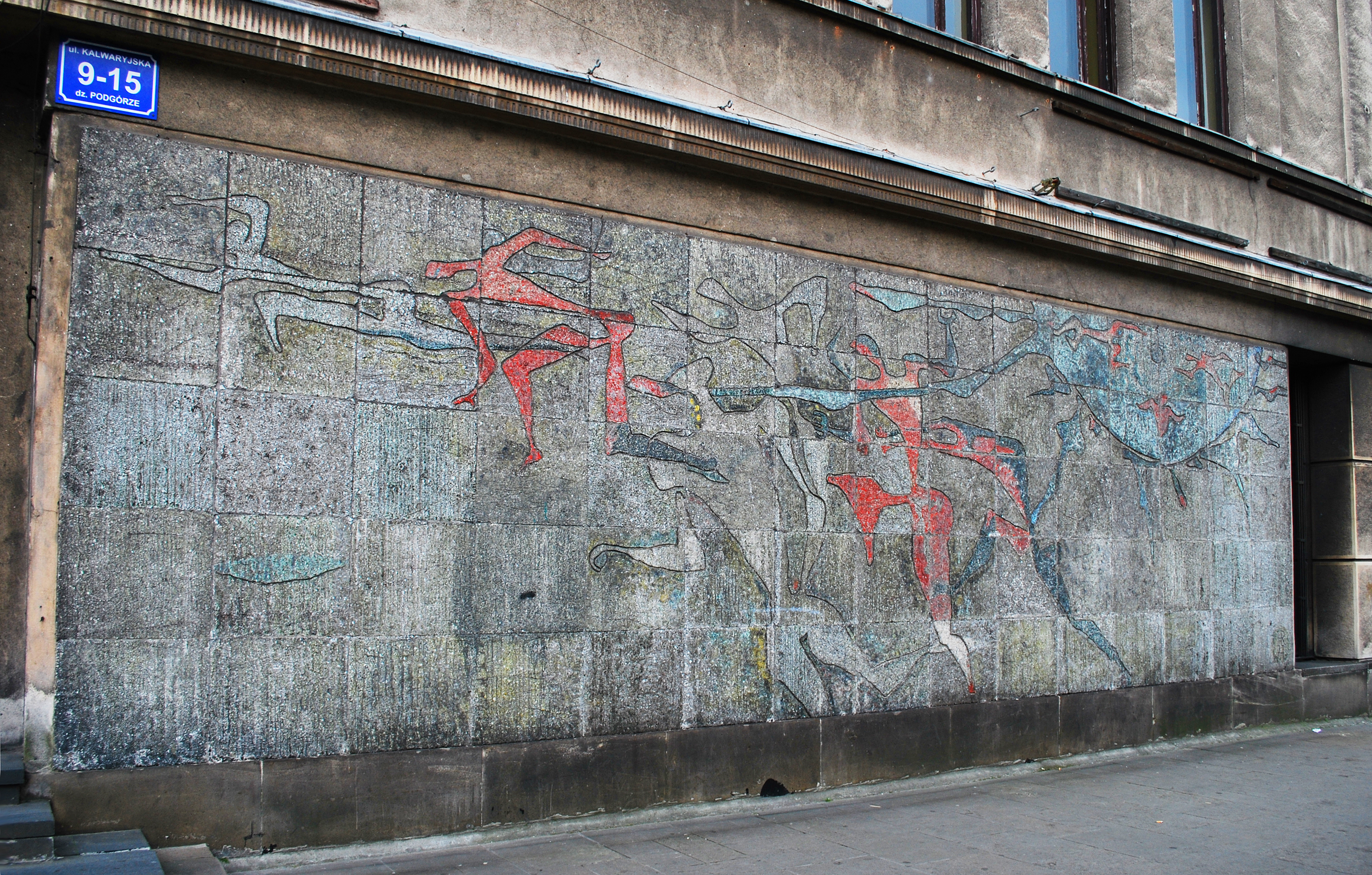 Swimmers, 1958 designed by Helena and Roman Husarski, SC Korona building front façade, 9 Kalwaryjska street, Podgórze, Krakow, Poland